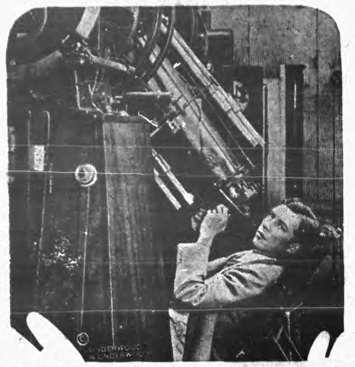 1930 press photo of astronomer Bevin Sharpless. The original newspaper caption read: Bevan P. Sharpless, a young scientist of the Naval observatory at Washington, has started on a 7,300 mile journey to the tiny island of Niuafo, where he will observe and photograph a total eclipse of the sun which will last only 1.9 minutes. The photograph shows him at work at the observatory preparing for the trip.